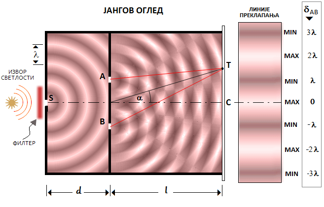 ЈАНГОВ ОГЛЕД